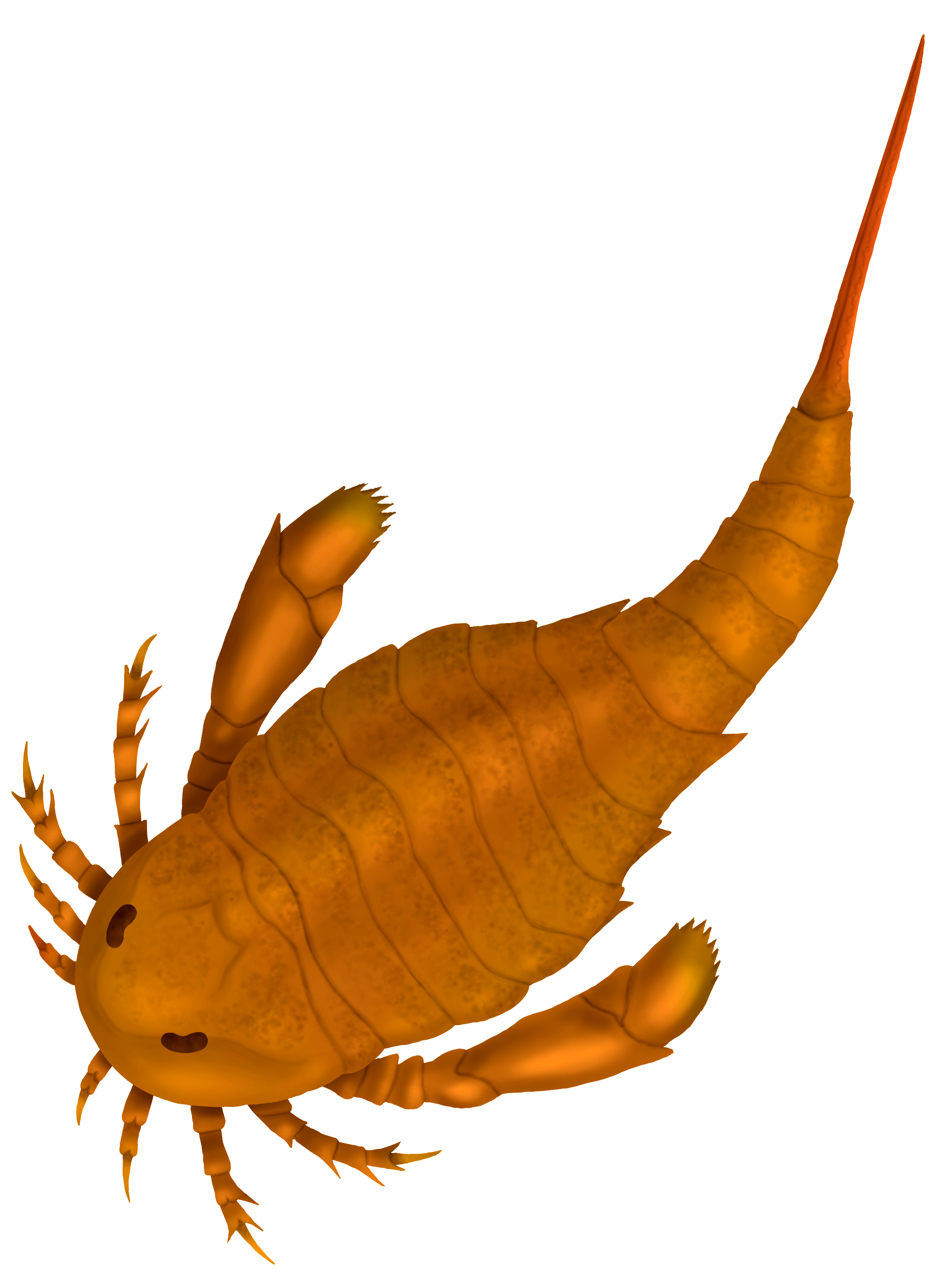 Adelophthalmus irinae (Eurypterida) from the Lower Carboniferous of the Krasnoyarsk Region. Reconstruction chiefly follows fossil material of A. mansfieldi with necessary changes based on fossil images in Shpinev (2005)